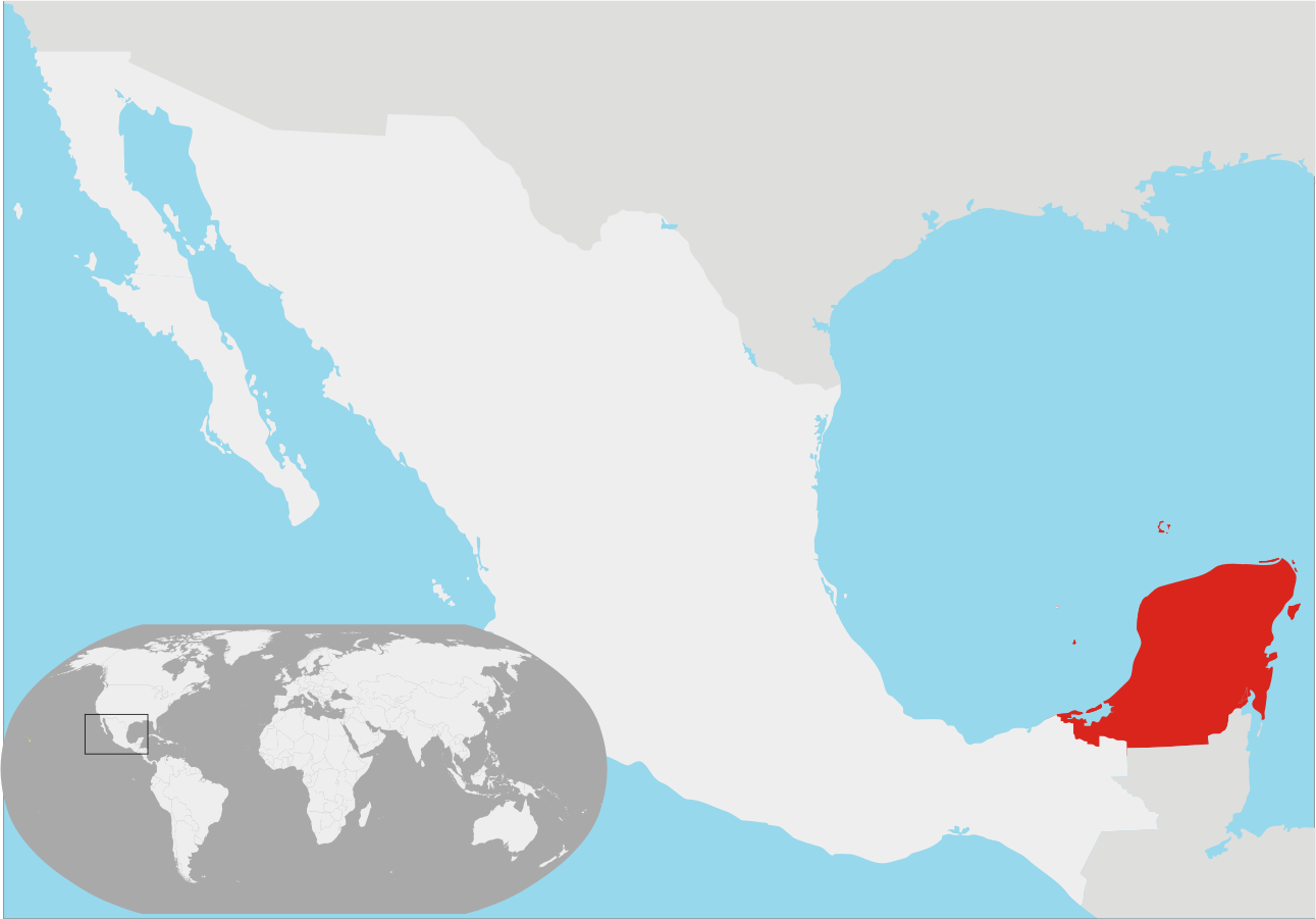 Location Republic of Yucatan (1841-1848)